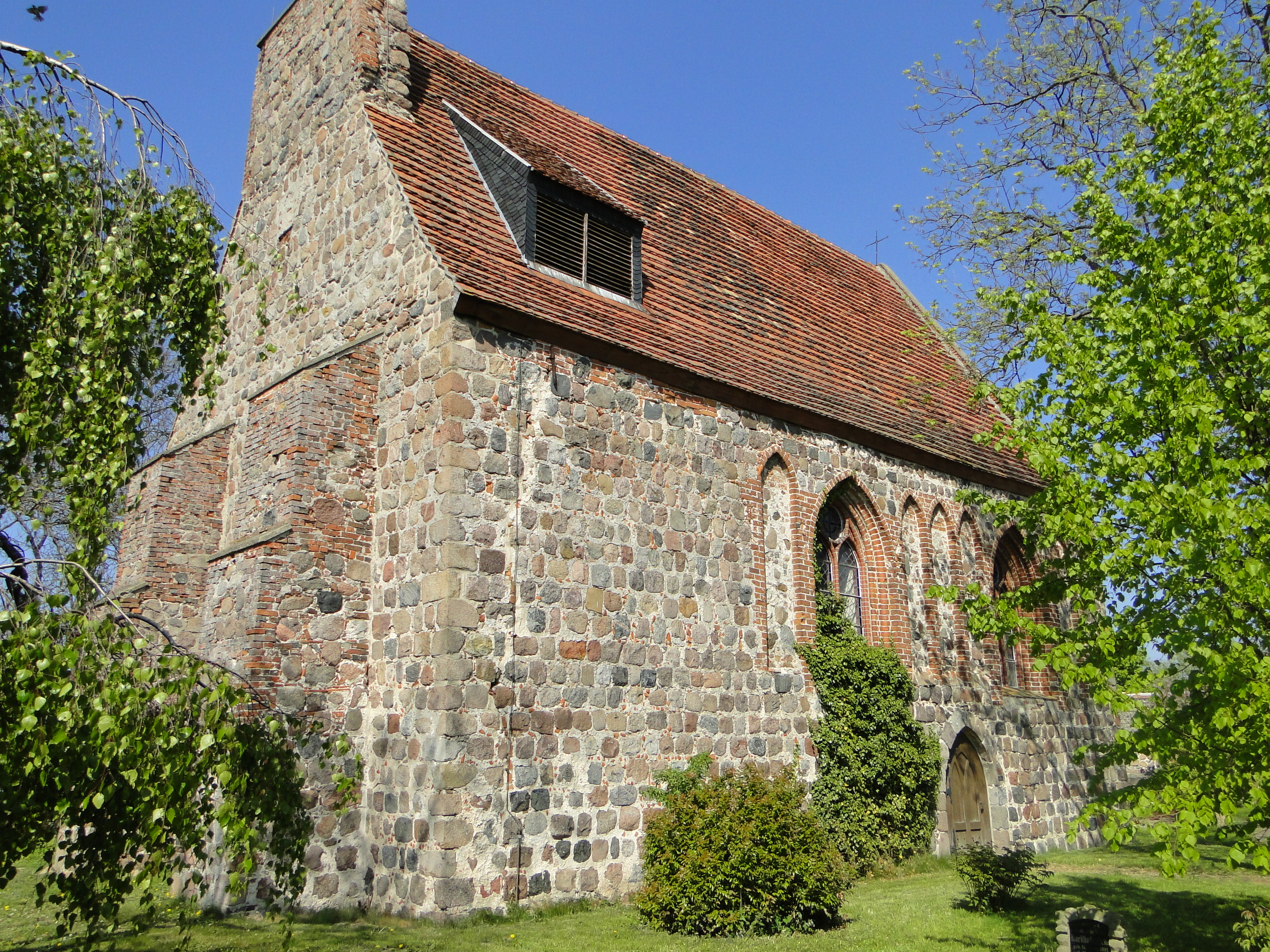 Church in Lindow, district Mecklenburg-Strelitz, Mecklenburg-Vorpommern, Germany